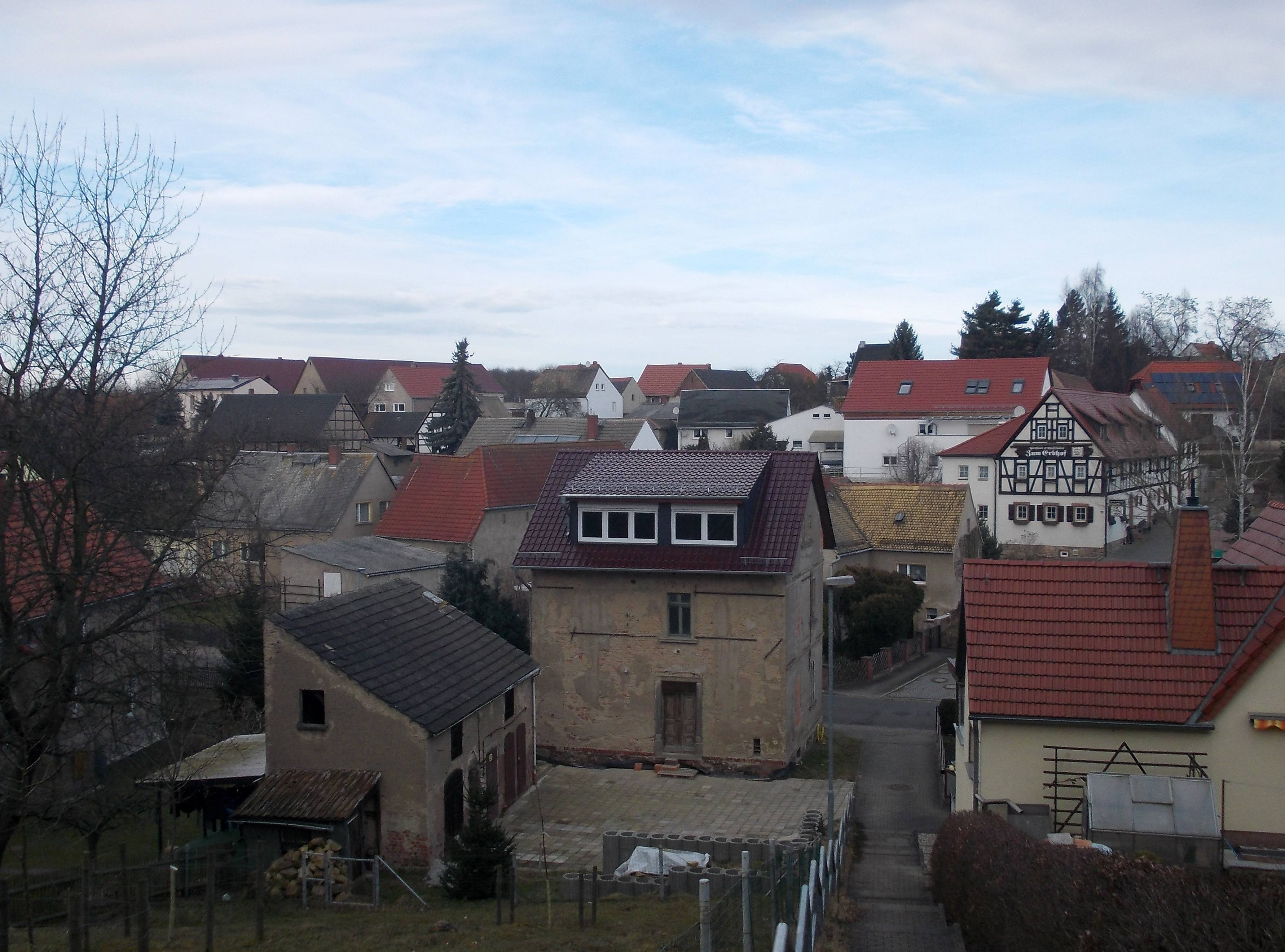 View of a part of Greifenhain (Frohburg, Leipzig district, Saxony)